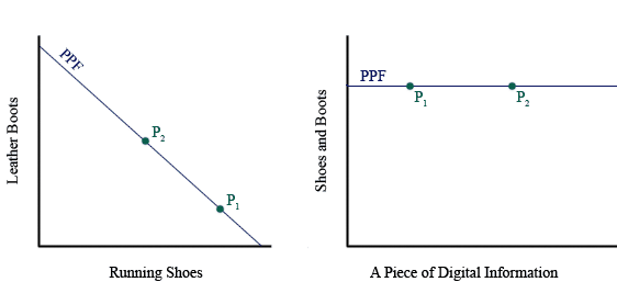 PPF of two material goods, illustrating trade-off + PPF of material good and digital information, illustrating the concept of eternal free lunch.